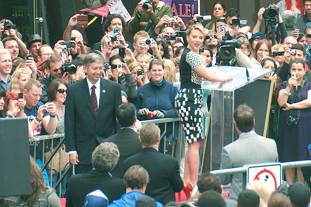 Hollywood Walk of Fame